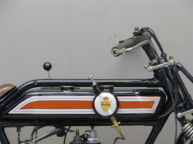 Flattank on a Rover 1921 "Sports" 550 cc side valve 4 HP motorcycle.